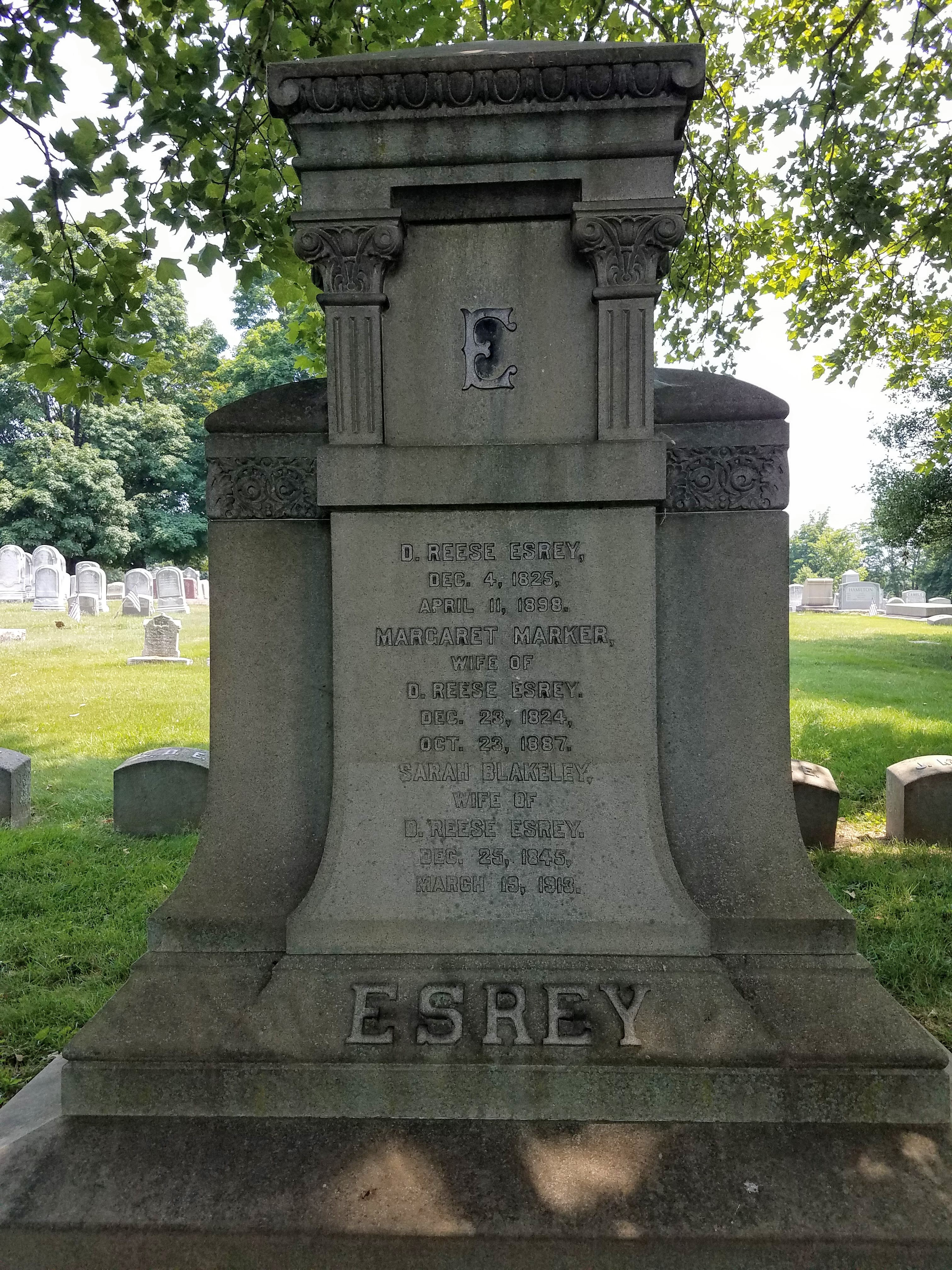 Photo of David Reese Esrey grave at Chester Rural Cemetery in Chester, Pennsylvania taken July 3, 2018